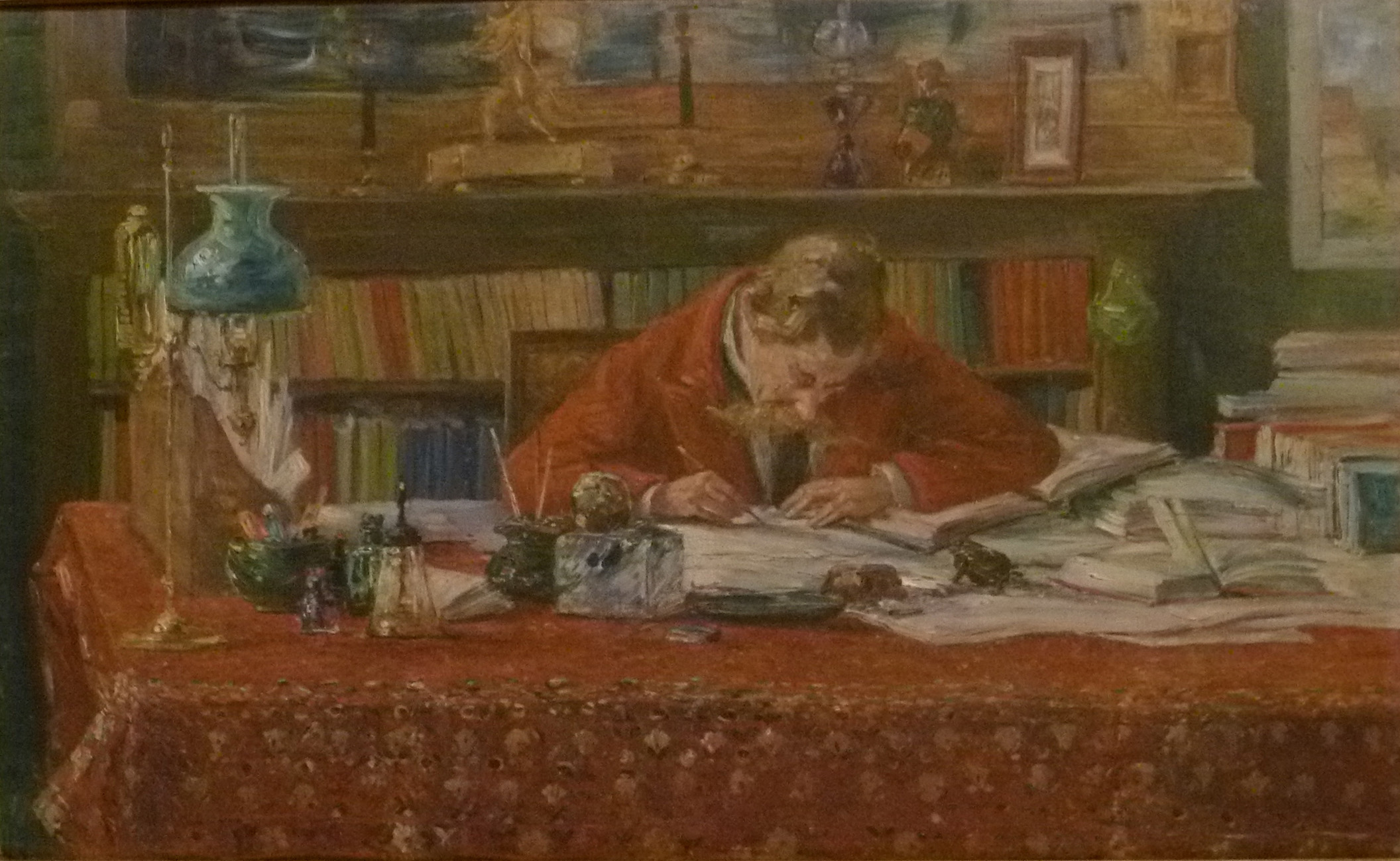 "The Belgian poet Emile Verhaeren" writing at his desk; oil on canvas (39 x 64.5 cm) by his wife Marthe Verhaeren-Massin; Museum Plantin-Moretus, Antwerp, Belgium (UNESCO World Heritage)